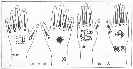 Hajichi(tattoo) of Amami Islands